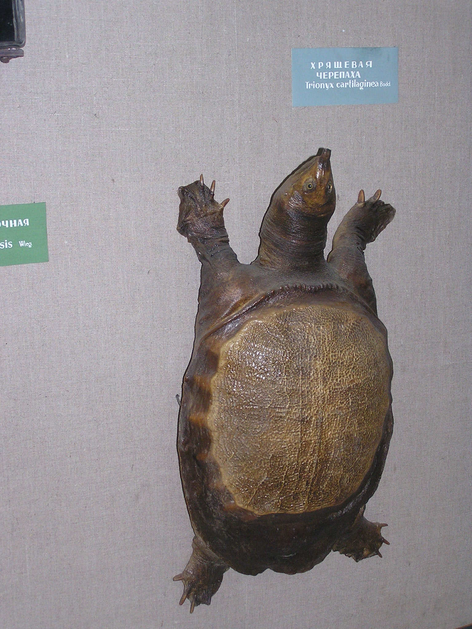 Asiatic Softshell Turtle